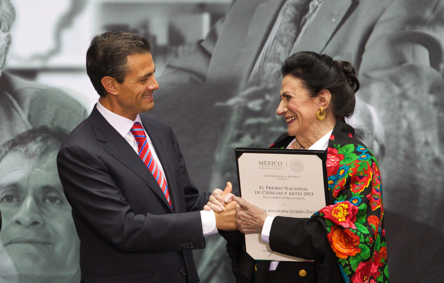 Science and Art National Prize 2013. National Palace. Mexico City. 10 December, 2013.